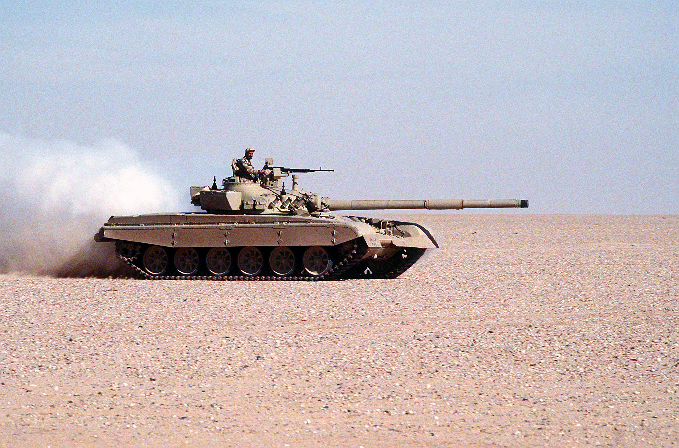 A Kuwaiti M-84AB main battle tank lays a smoke screen during a capabilities demonstration at a Kuwaiti outpost during Operation Desert Shield.